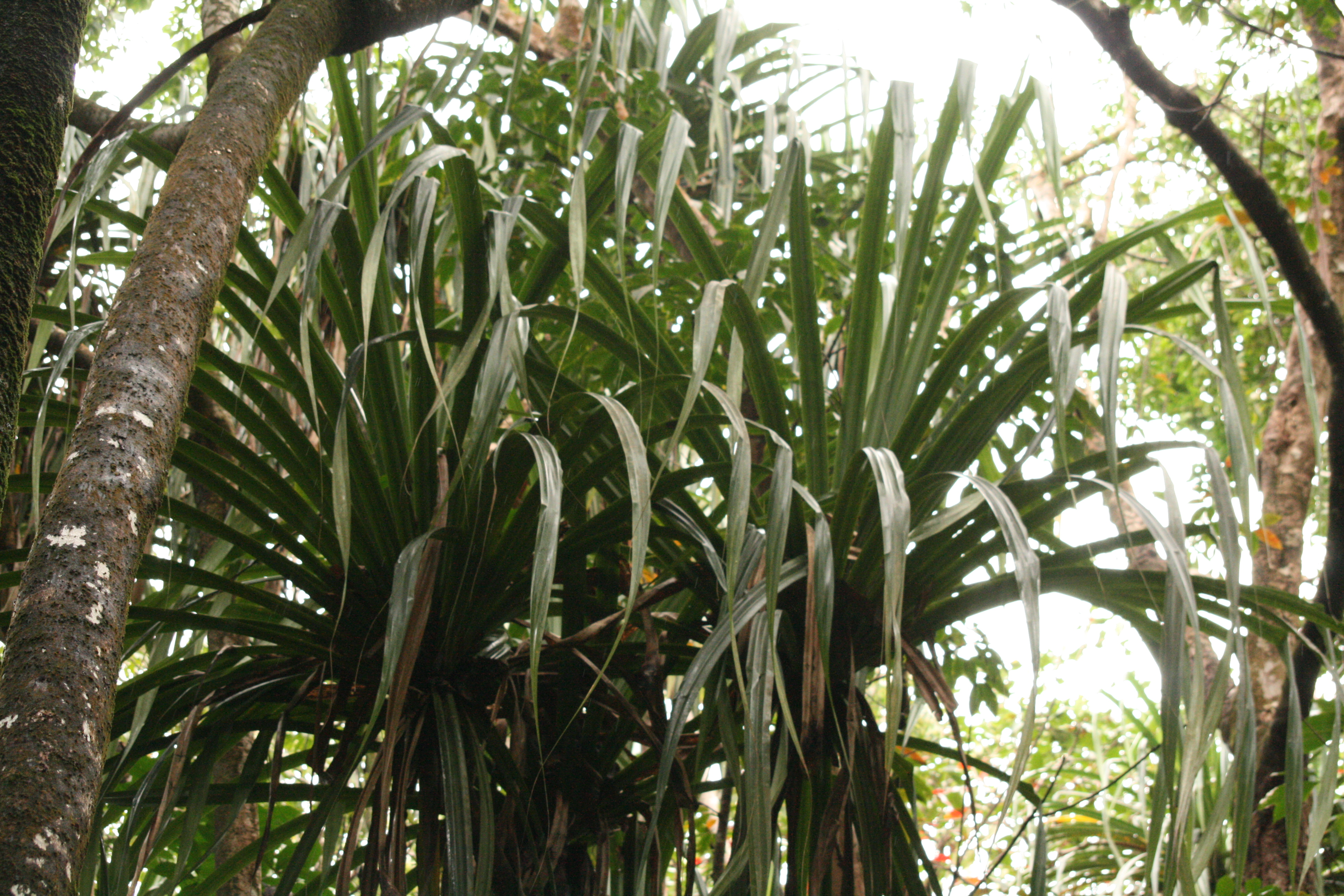 Pandanus hornei ("Horne's Pandanus") in Mahe, Seychelles